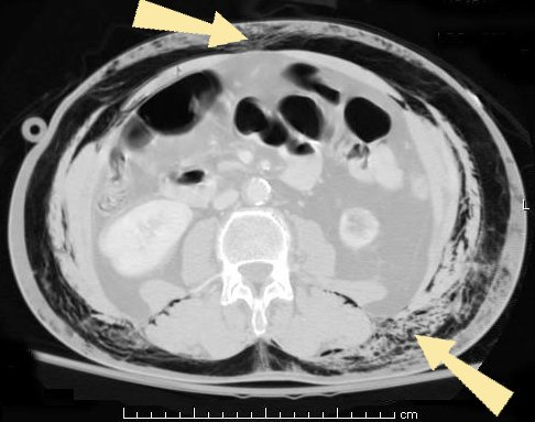 Modified image of Image:Subcutaneous emphysema abdomen.jpg. CT scan of a patient with severe subcutaneous emphysema. Abdominal CT.